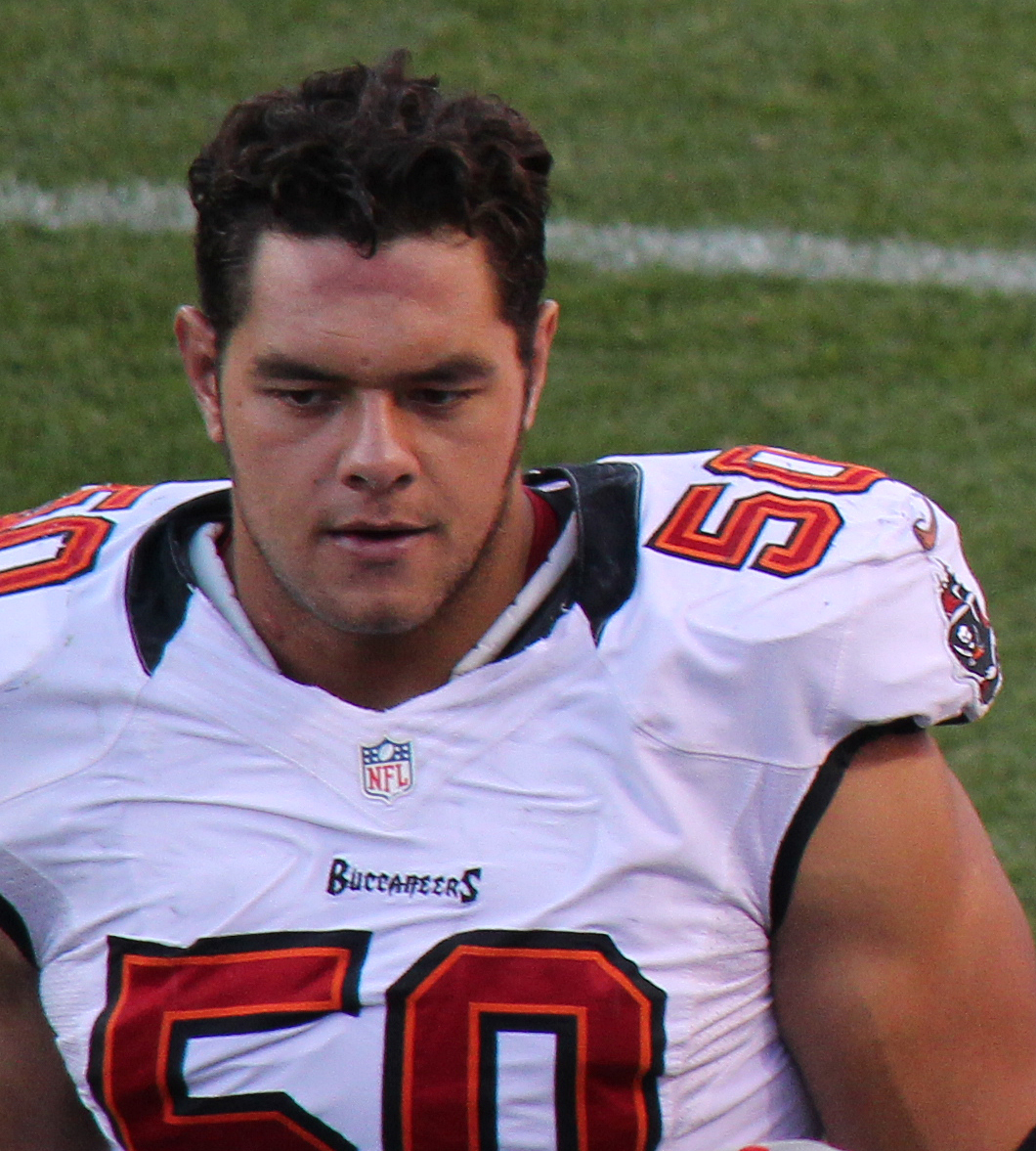 Daniel Te'o-Nesheim, a player on the National Football League.